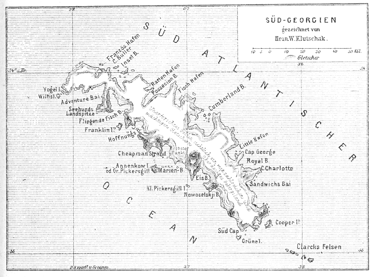 Map of South Georgia from 1881 by Henry W. Klutschak (1848-1890)